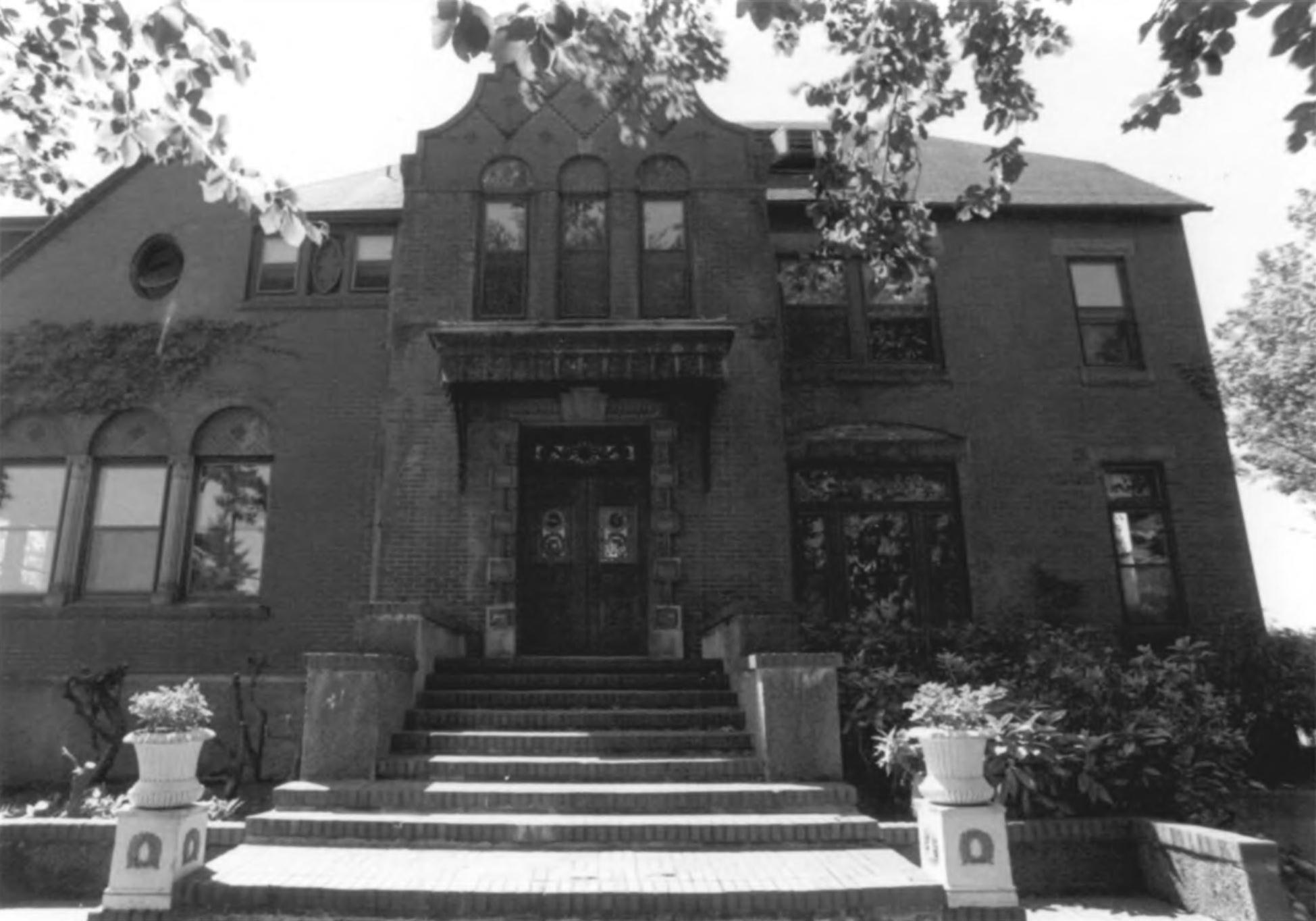 The historic Markle-Pittock House (built 1888), located at 1816 Southwest Hawthorne Terrace in Portland, Oregon, United States, is listed on the US National Register of Historic Places.